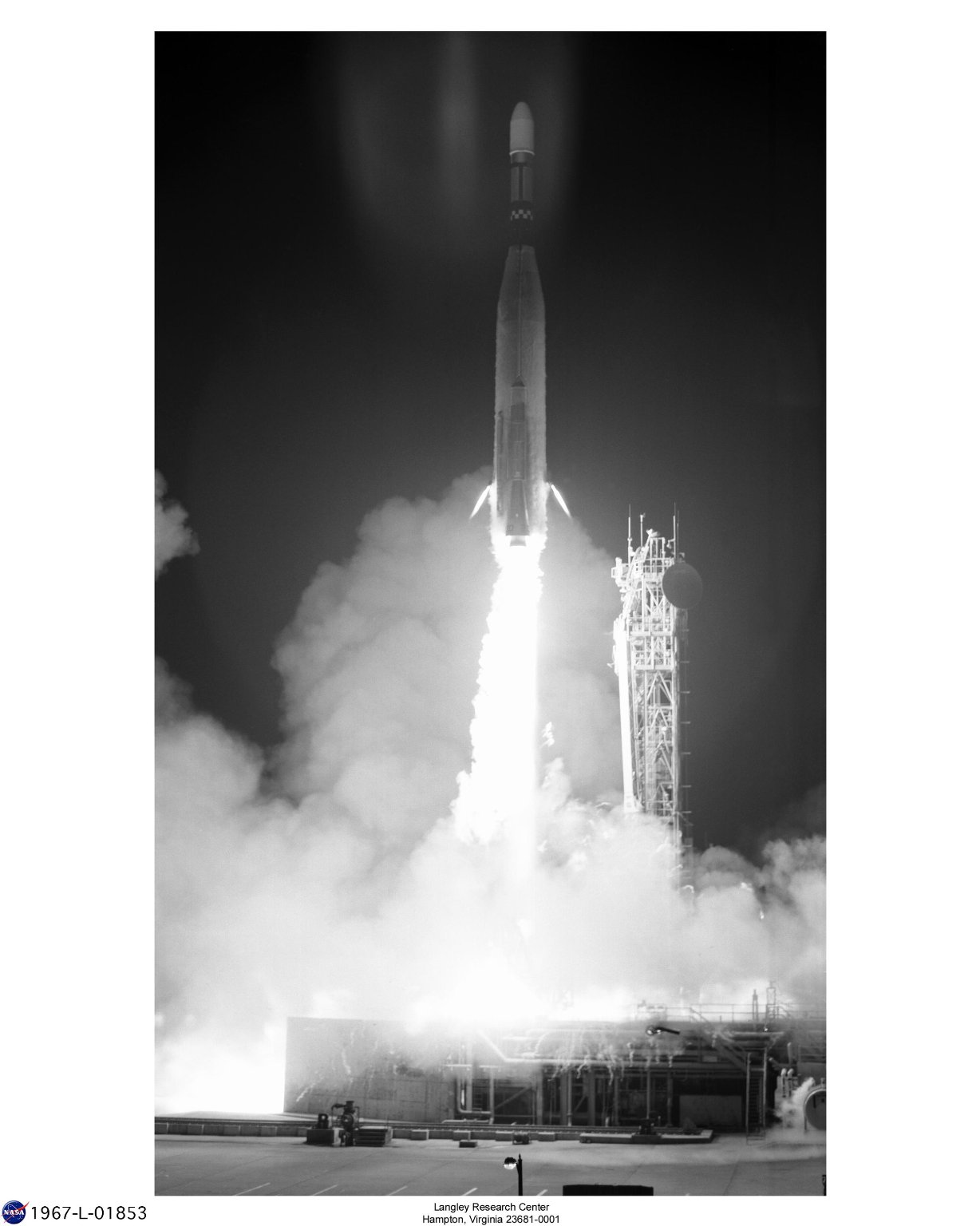 Collection: NASA Image eXchange Collection Title: Apollo Project - Liftoff of Lunar Orbiter III Description: Liftoff of Lunar Orbiter III from Complex 13. Date: 02.02.1967 Credit: NASA Langley Research Center (NASA-LaRC) ID: EL-2002-00514 Other ID: L67-1853 UID: SPD-NIX-EL-2002-0051 4 Original url: SOURCE: Visit for the most comprehensive compilation of NASA stills, film and video, created in partnership with Internet Archive.